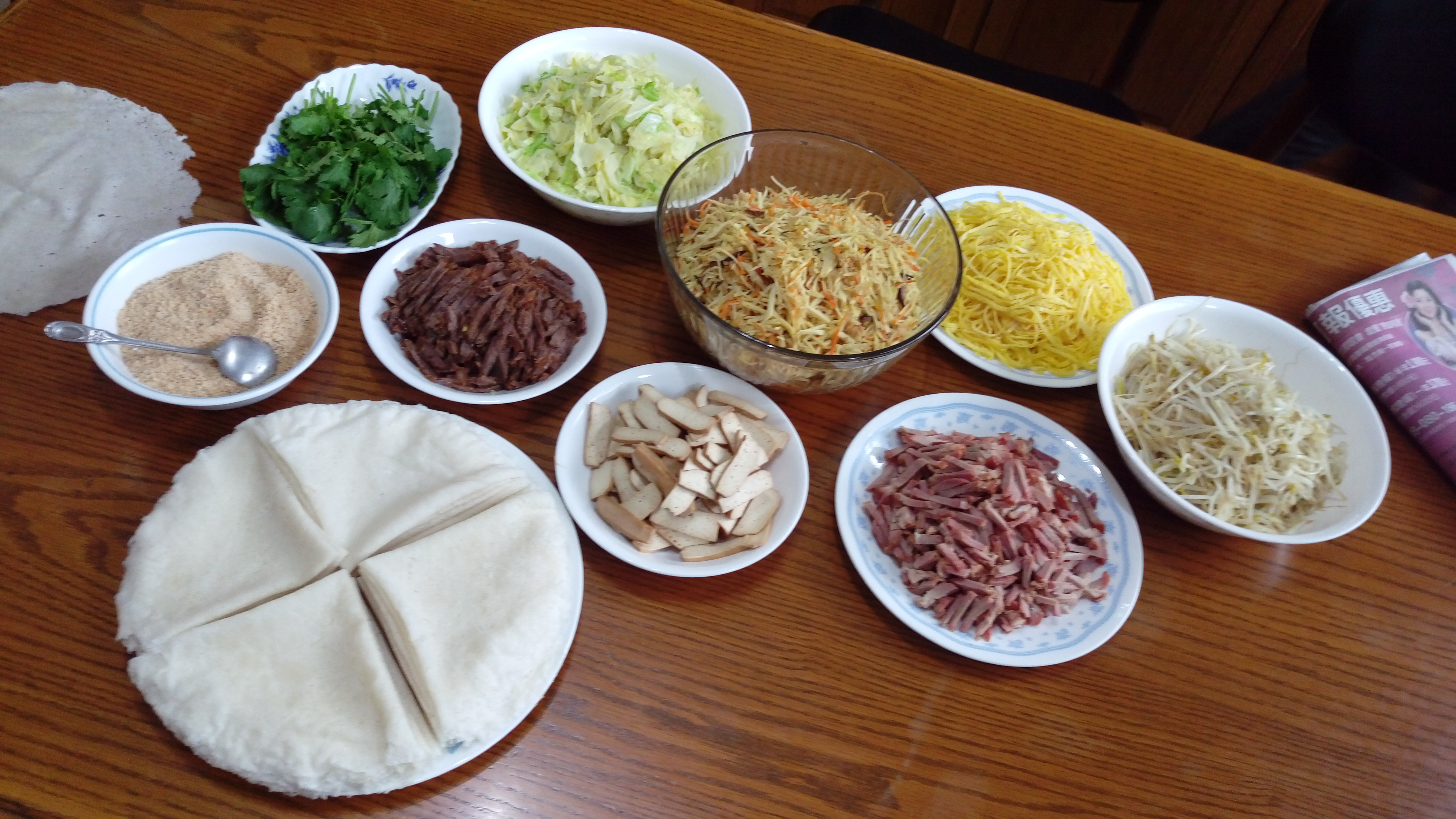 Ingredients for making a Taiwanese Spring Roll in Changhua City.